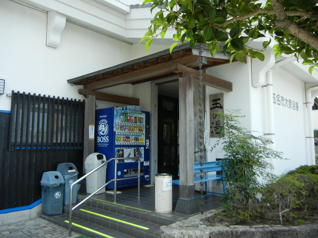 Tananoyu. 熊本県玉名市にある「玉の湯」, Tamana.